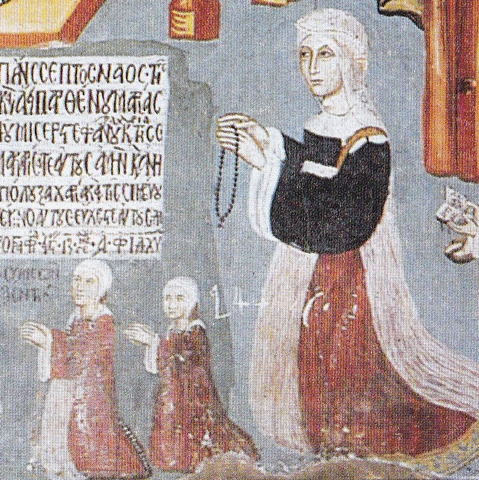 Helena Palaiologina of Morea, Queen of Cyprus and her daughters Charlotte and Cleopha